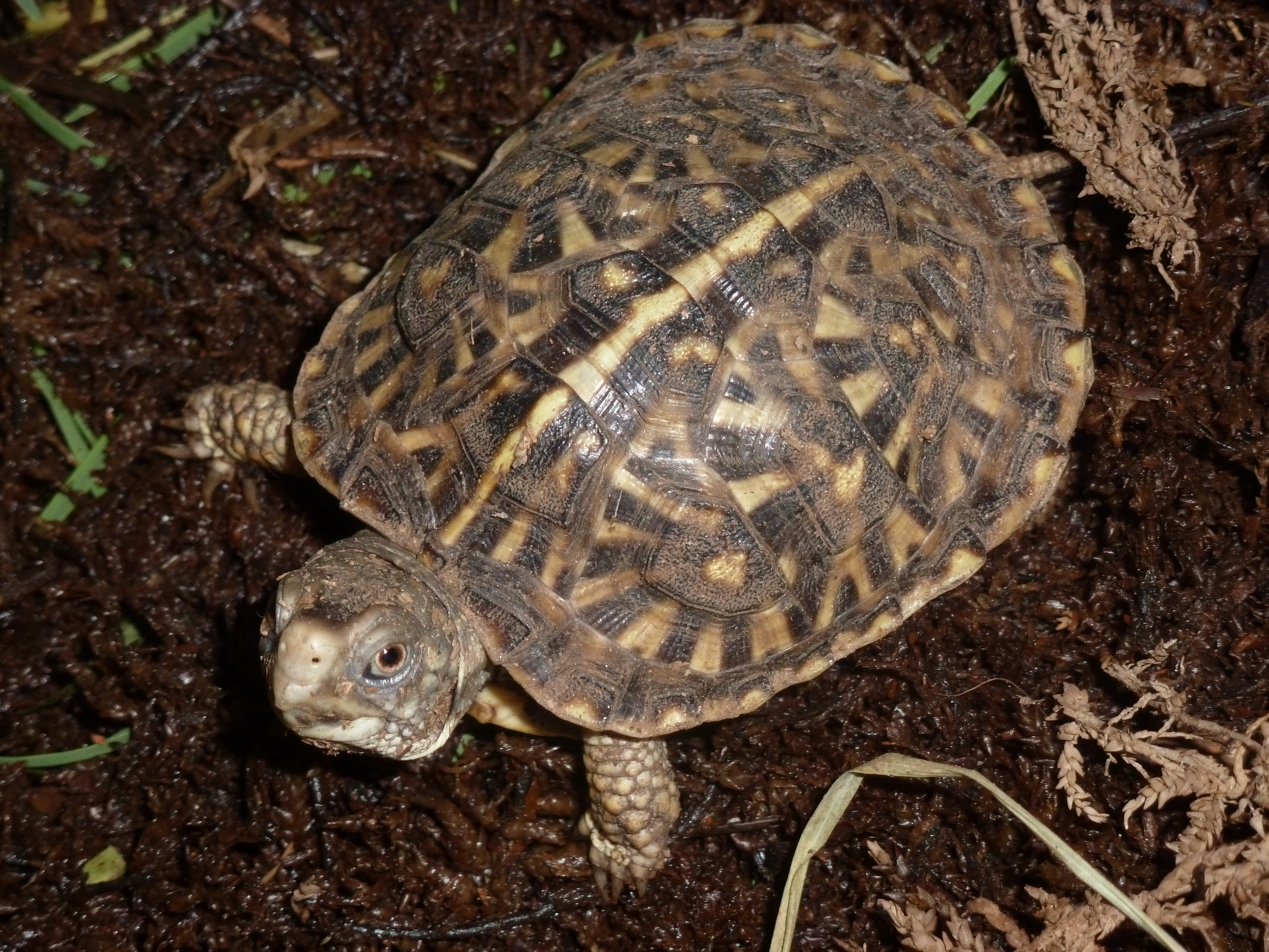 A hatchling Ornate Terrapin (Terrapene ornata ornata) at the South Plains Wildlife Rehabilitation Center.